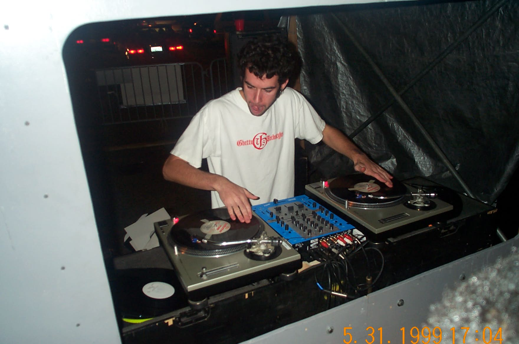 Producer Disco D Commits Suicide David Shayman, aka up-and-coming hip hop producer, remixer, Ghettotech proliferator (and rumored coiner of the genre's name) Disco D, committed suicide earlier today at age 27, according to . The above shot was taken when he played at our Boombox in 2002, at Burningman Decompression. He was one talented DJ and a cool dude.